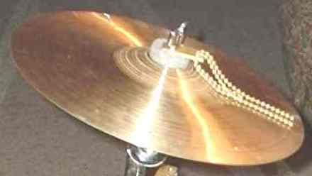 Detail of File:Aasizzler3.jpg showing just the Paiste sizzle splash